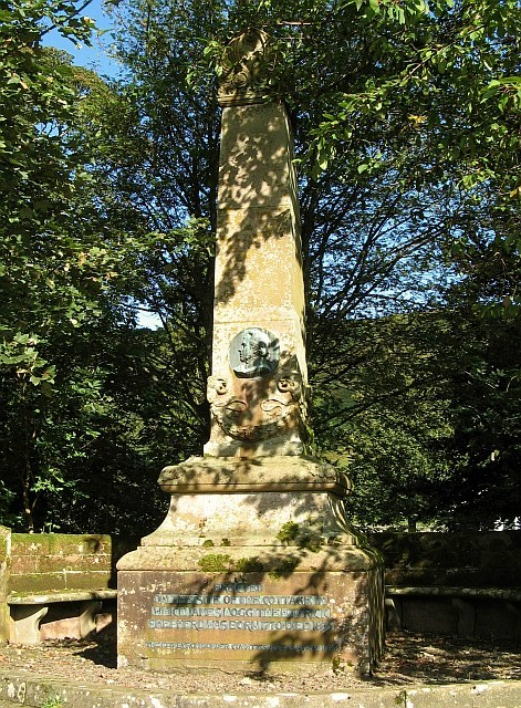 Monument to James Hogg, the Ettrick Shepherd, near to Ettrickhill, Scottish Borders, Great Britain. The base of the statue bears the date 1898 and the following inscription: "Erected on the site of the cottage in which James Hogg the Ettrick Shepherd was born 1770 - died 1835" James Hogg received almost no formal education, for when his father was made bankrupt he began work, at the age of only seven, as a cowherd, later becoming a shepherd. He taught himself to read and write and began writing songs and poems. His friendship with Sir Walter Scott came about as a result of an introduction by Hogg's employer, and Hogg assisted with research for Scott's "The Minstrelsy of the Scottish Border". James Hogg is best remembered for his novel, "The Private Memoirs and Confessions of a Justified Sinner". He was greatly admired as a writer during his lifetime, and was offered a knighthood by George IV, but he refused the honour. He is less widely read nowadays, but he is said to have influenced Robert Louis Stevenson and, more recently, Irvine Welsh and Ian Rankin.